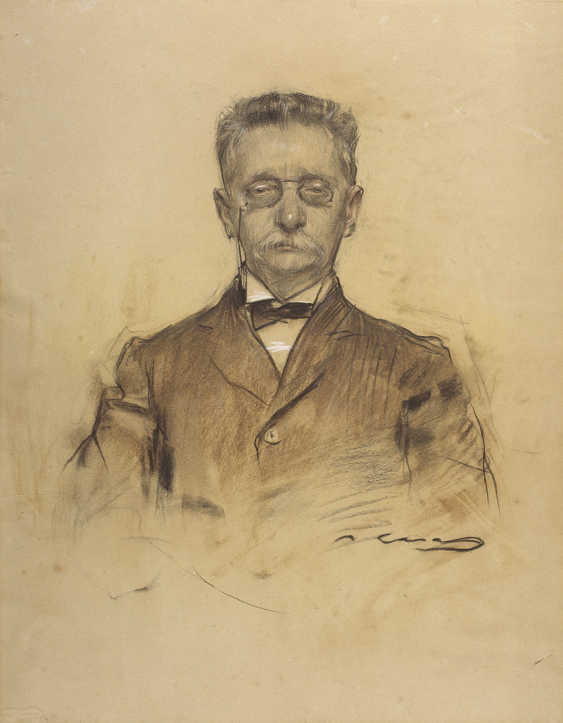 Portrait by Ramon Casas conserved at MNAC in Barcelona. Imagen 030